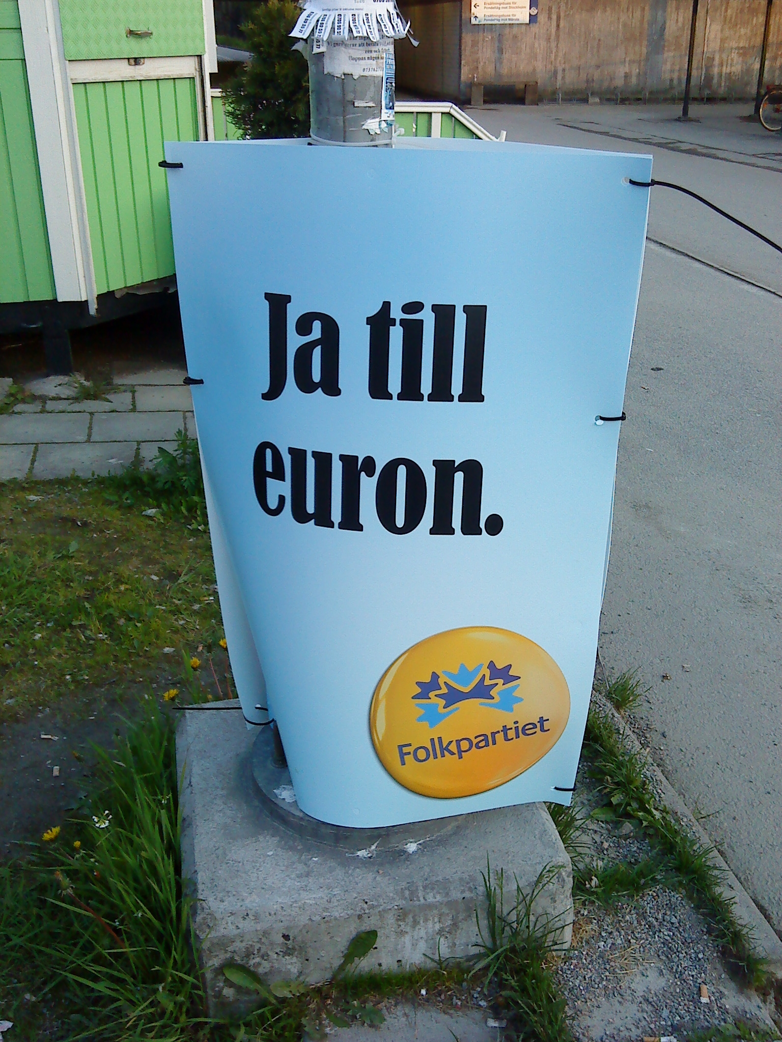 ja till euron i Sverige